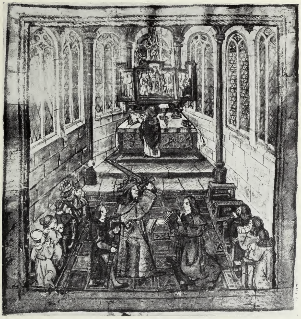 Knighting of he Swiss envoy, Melchior Russ by King Mathias Corvinus in 1488. Miniature from the Luzern Chronicle of Diebold Schilling the Older